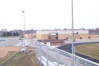 South view of Okoboji High School.